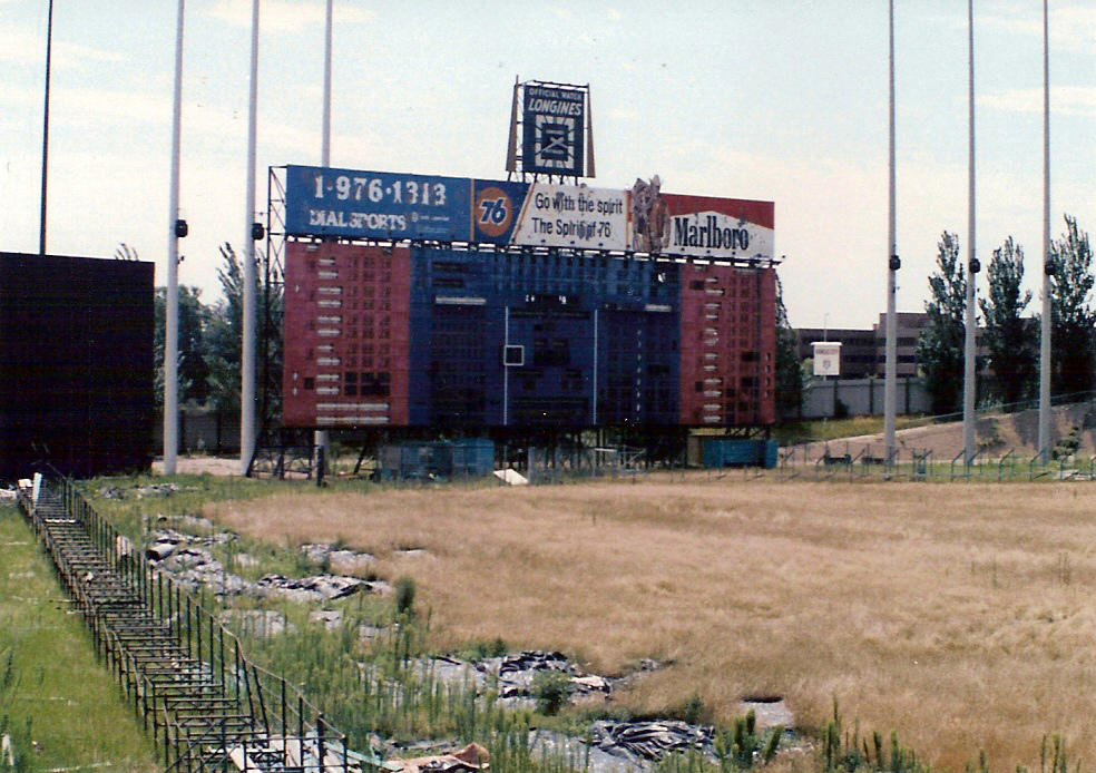 View of an abandoned Metropolitan Stadium, circa 1984, after the Minnesota Twins and Minnesota Vikings moved out.